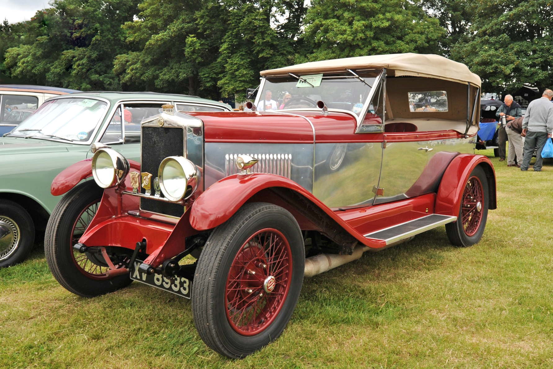 MG 14/40 Tourer MKIV (DVLA) first registered 8 January 1929, 1701cc